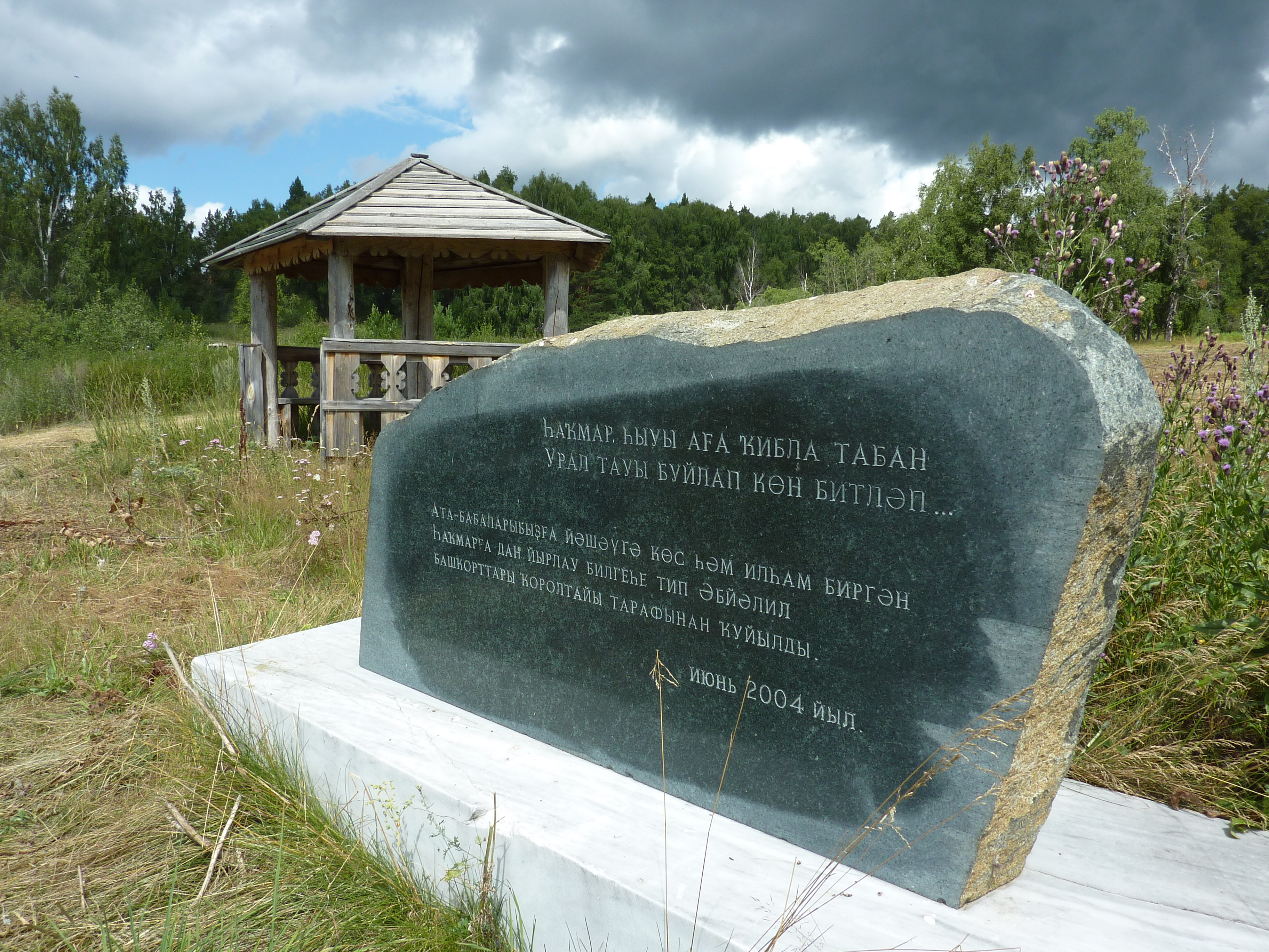 Springhead SakmaraHrvatski: vrelo Sakmara